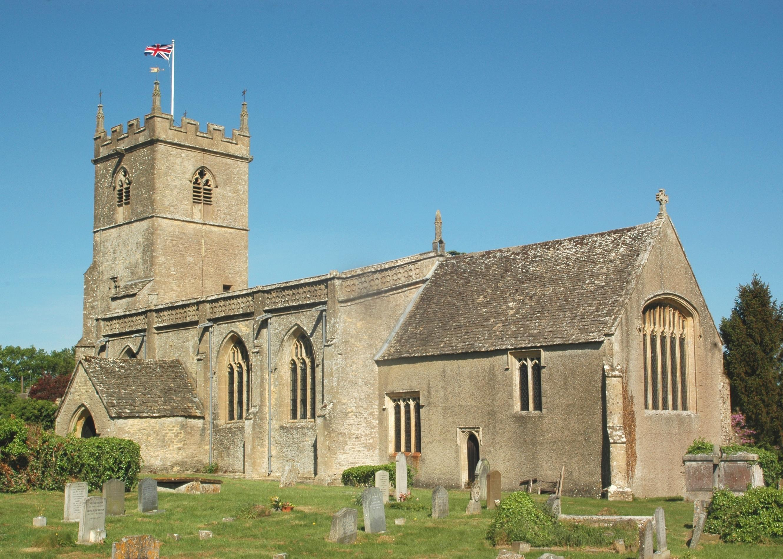 Church of England parish church of St Laurence, Combe, Oxfordshire, viewed from the southeast